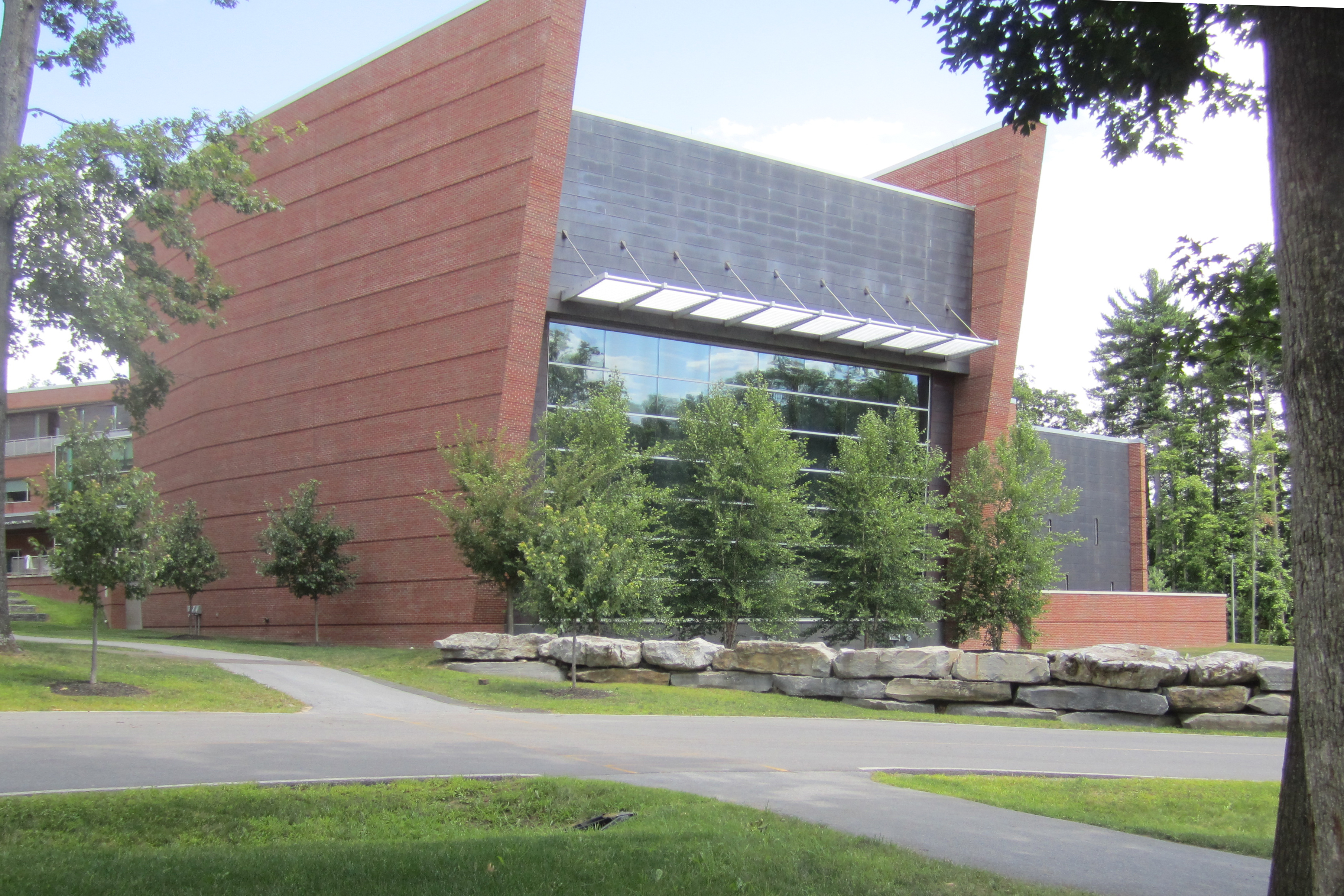 Arthur Zankel Music Center, Skidmore College, Saratoga Springs NY